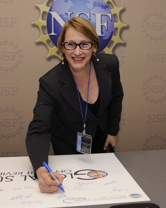 Suzanne Fortier, president of Canada’s Natural Sciences and Engineering Research Council (NSERC), signed one of the ceremonial banners at the start of the Global Summit on Merit Review, hosted by NSF in May 2012. The heads of research councils from approximately 50 countries participated in the summit. Fortier led the summit’s discussion on plans for a Global Research Council. For more about the Global Summit on Merit Review, see the NSF press release. Credit: Sandy Schaeffer for NSF